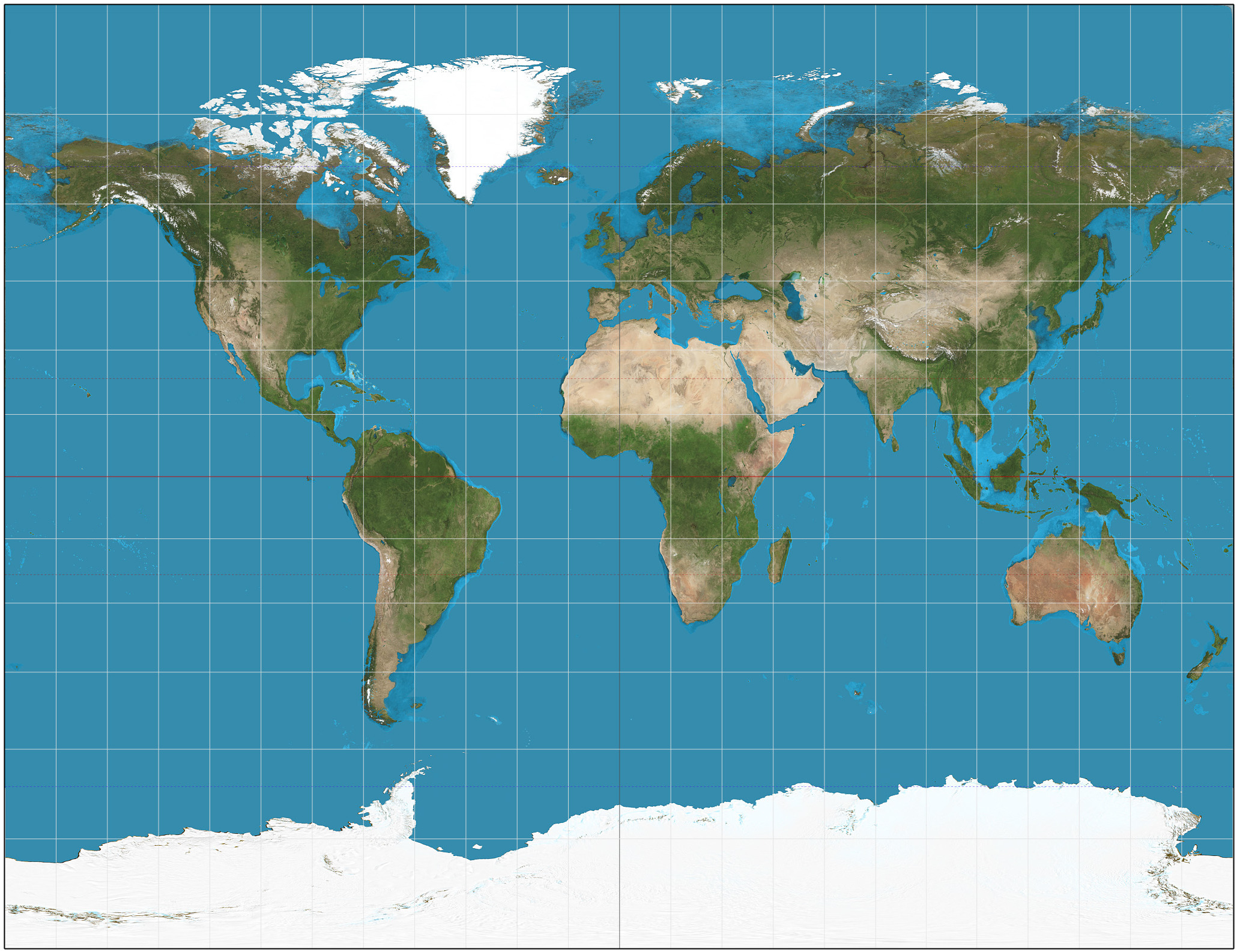 The world on Gall stereographic projection. 15° graticule. Imagery is a derivative of NASA’s Blue Marble summer month composite with oceans lightened to enhance legibility and contrast. Image created with the Geocart map projection software. cmglee horizontally rotated the map to center the Prime Meridian to match similar maps using other projections.